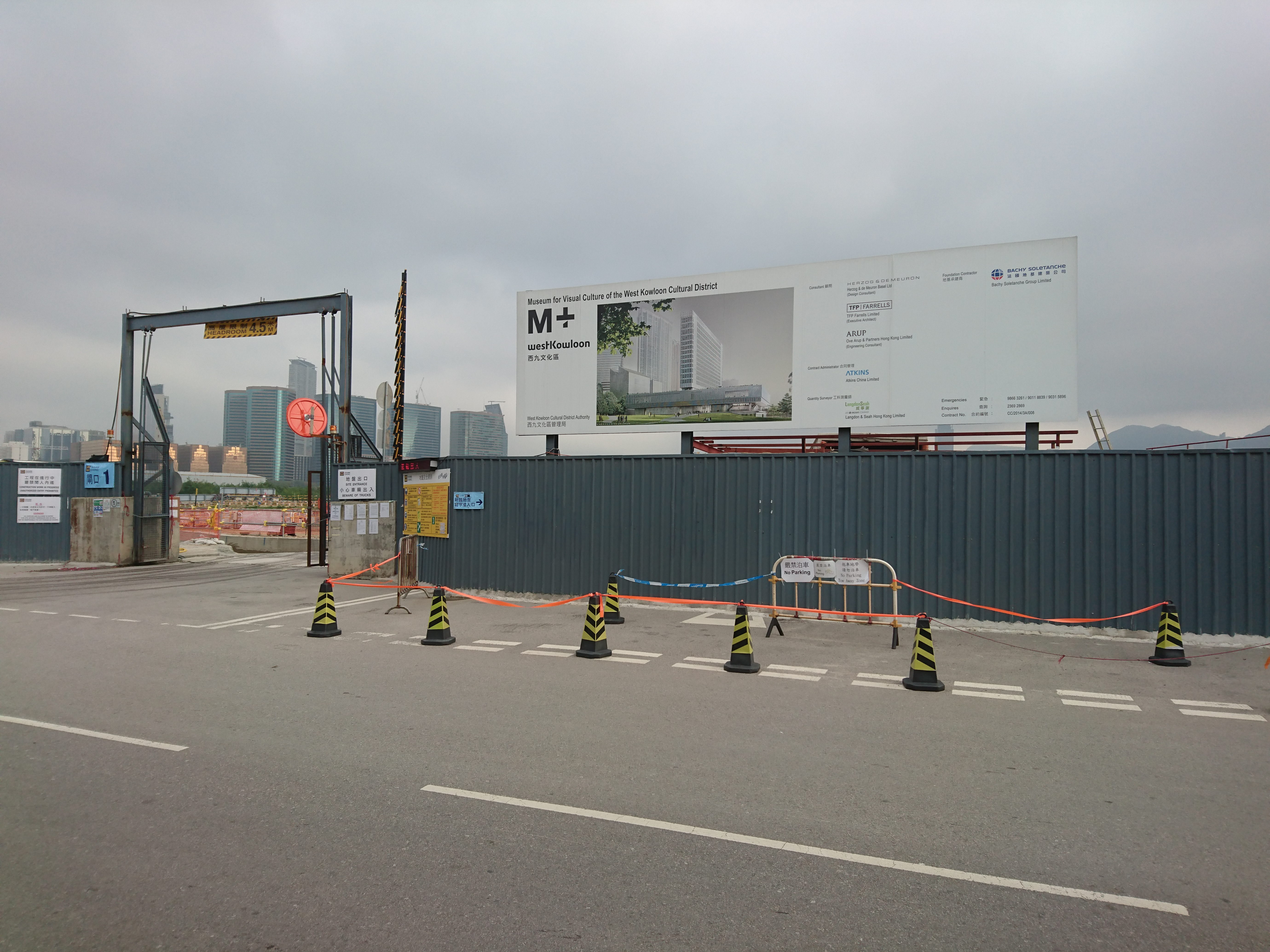 Entrance of M+ Museum Construction Site